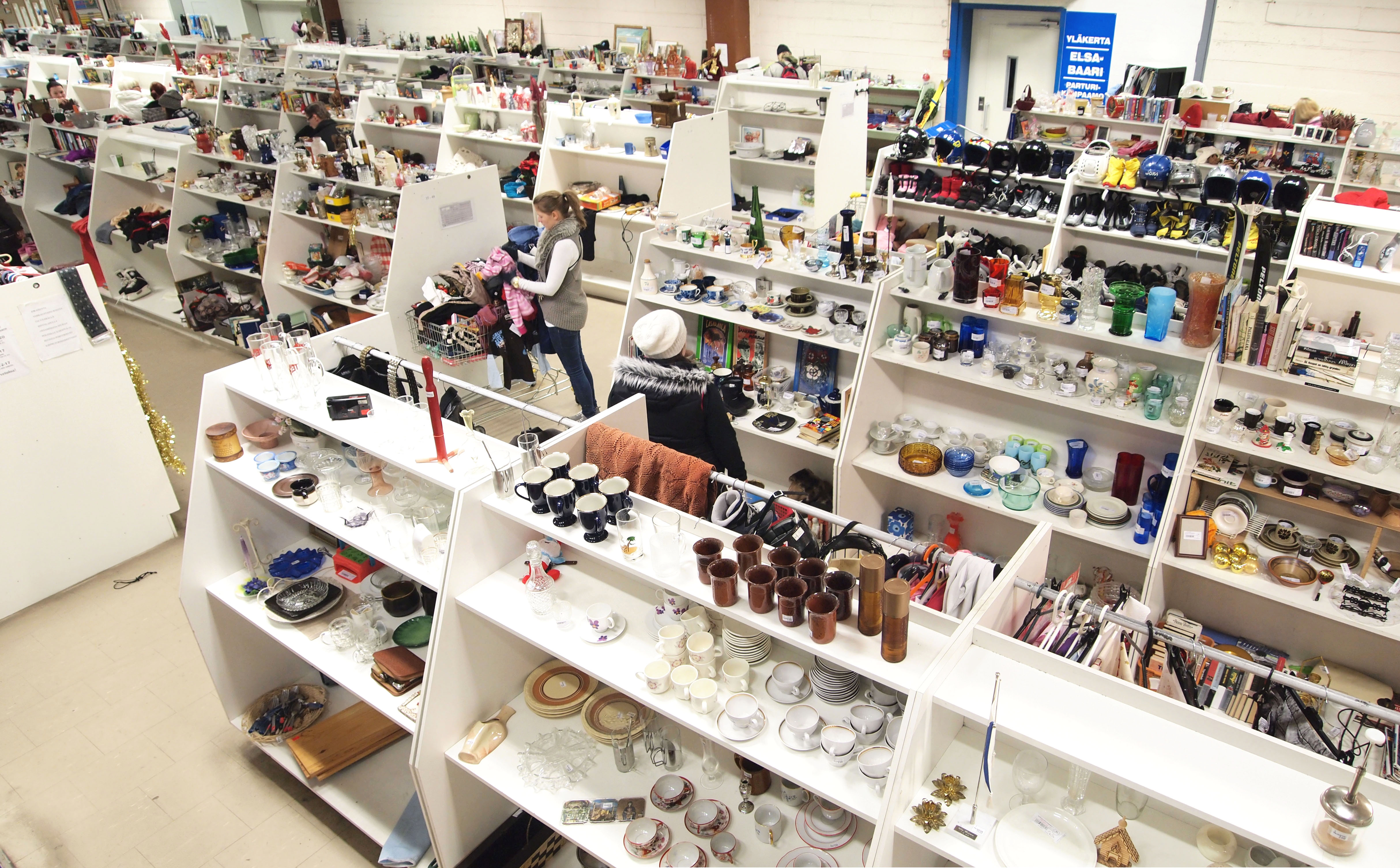 Seppälä flea market in Jyväskylä.